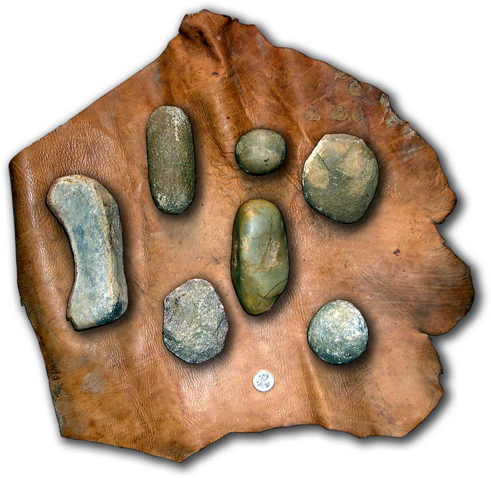 Several hammersones for experimental knapping